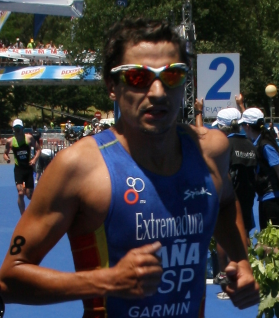 Running sector: Ivan Raña ITU Triathlon World Series 2010: Madrid